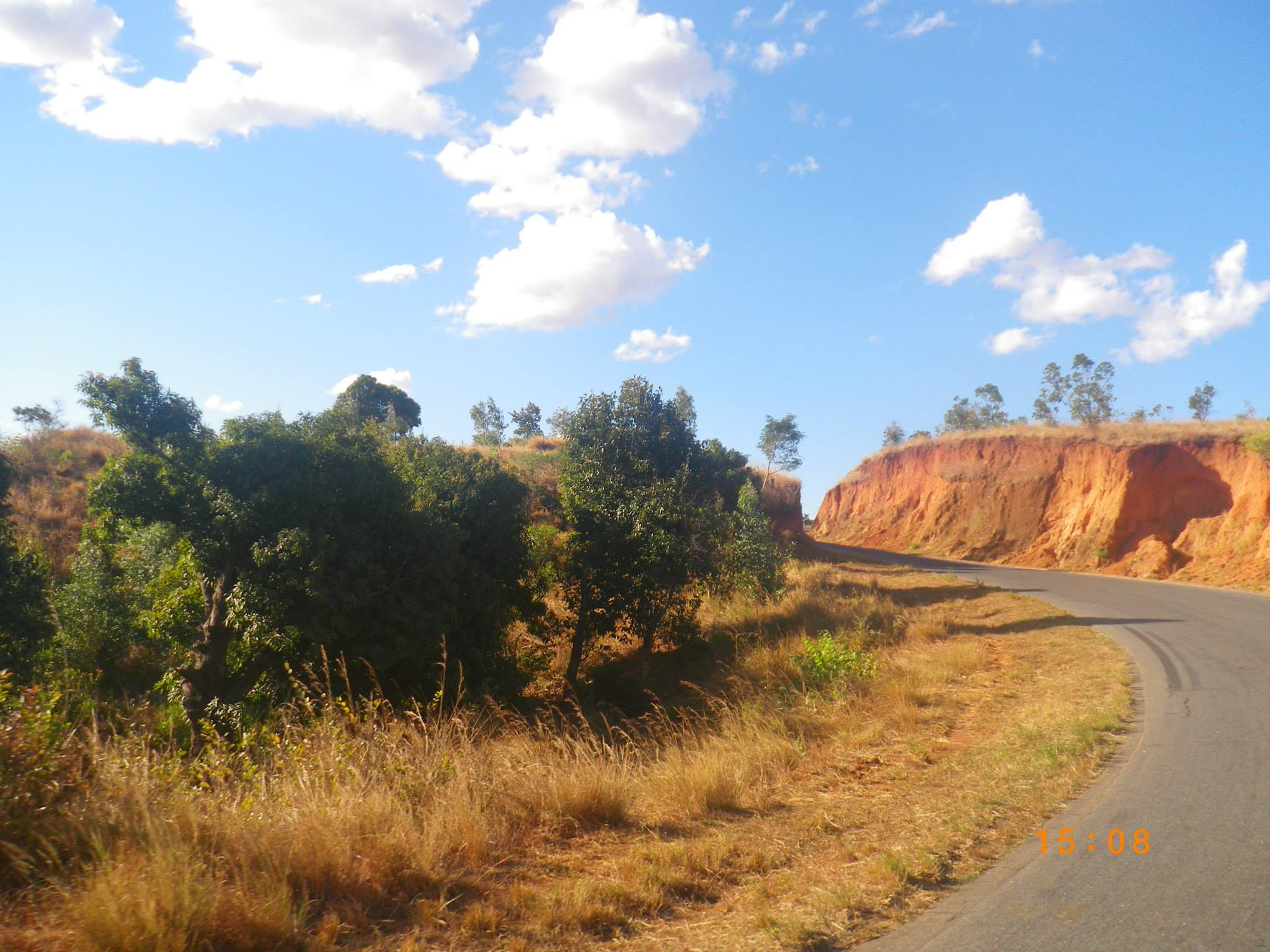 This is an image with the theme "Play" from: Madagascar